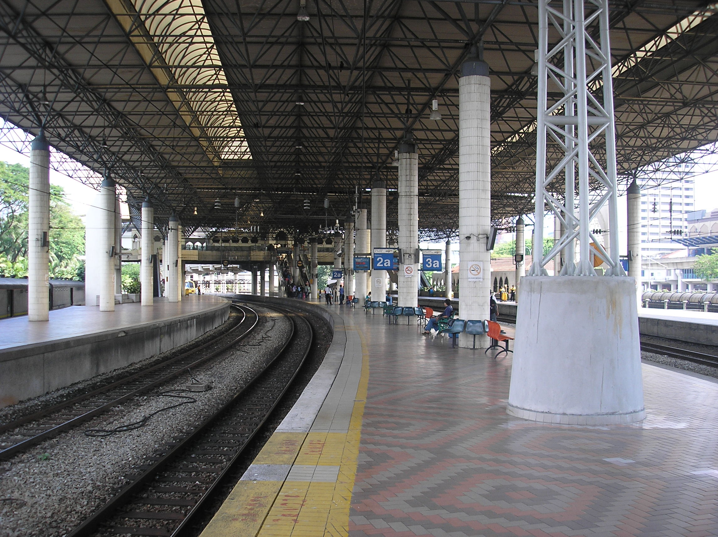 The newer, Dayabumi-linked platforms at the Kuala Lumpur railway station (Rawang-Seremban/Sentul-Port Klang), Kuala Lumpur, Malaysia.